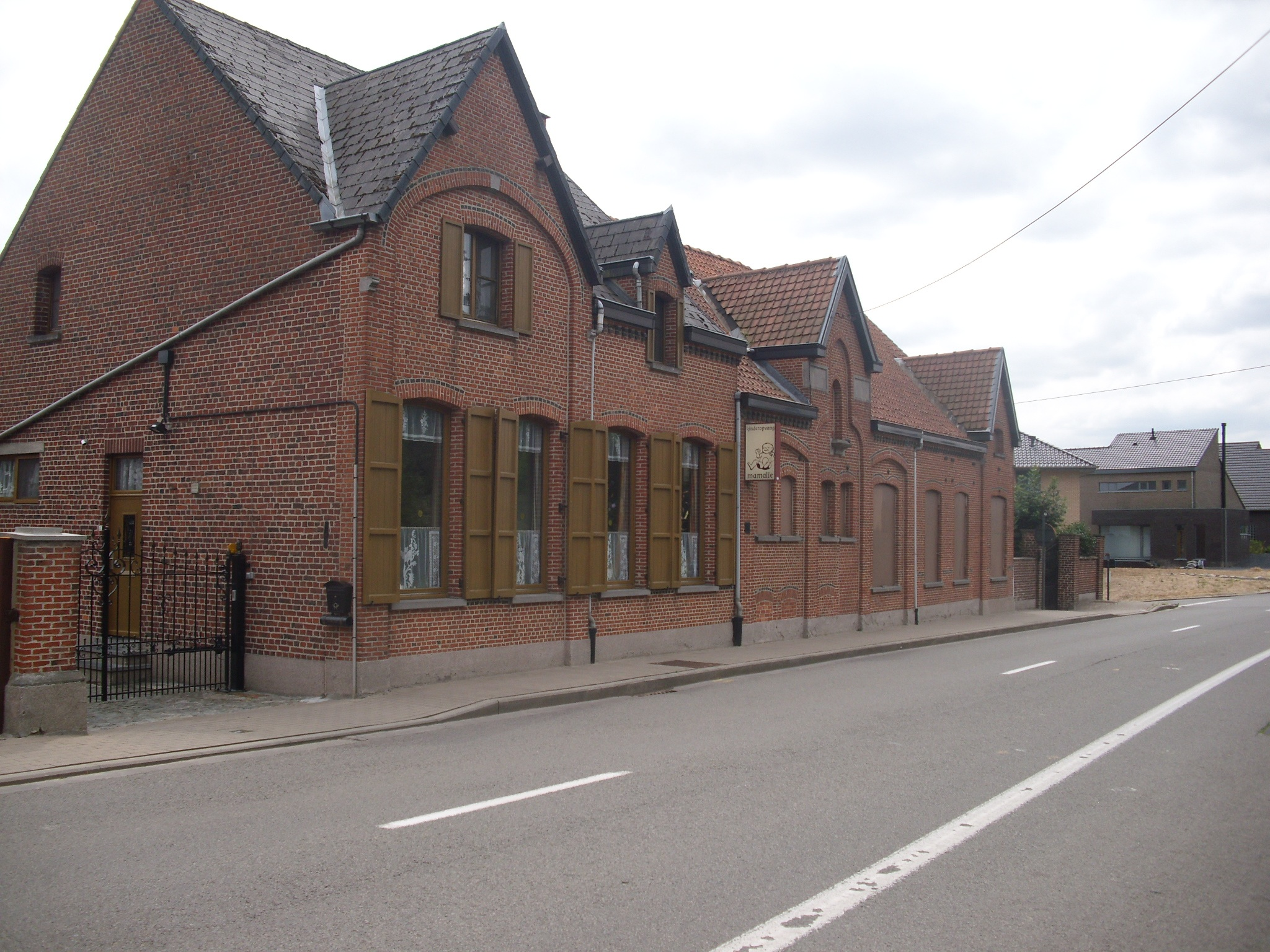 Melkerij De Maagd - Dorpsstraat 95 - Sint-Maria-Horebeke in Horebeke - Oost-Vlaanderen in het Vlaams Gewest - België. Nr. 95. Voormalige "Samenwerkende Melkerij De Maagd", cf. opschrift op twee arduinen gevelstenen, coöperatieve zuivelfabriek opgericht in 1896. In 1951 overgebracht naar de nieuwe melkerij, Dorpsstraat nr. 3.